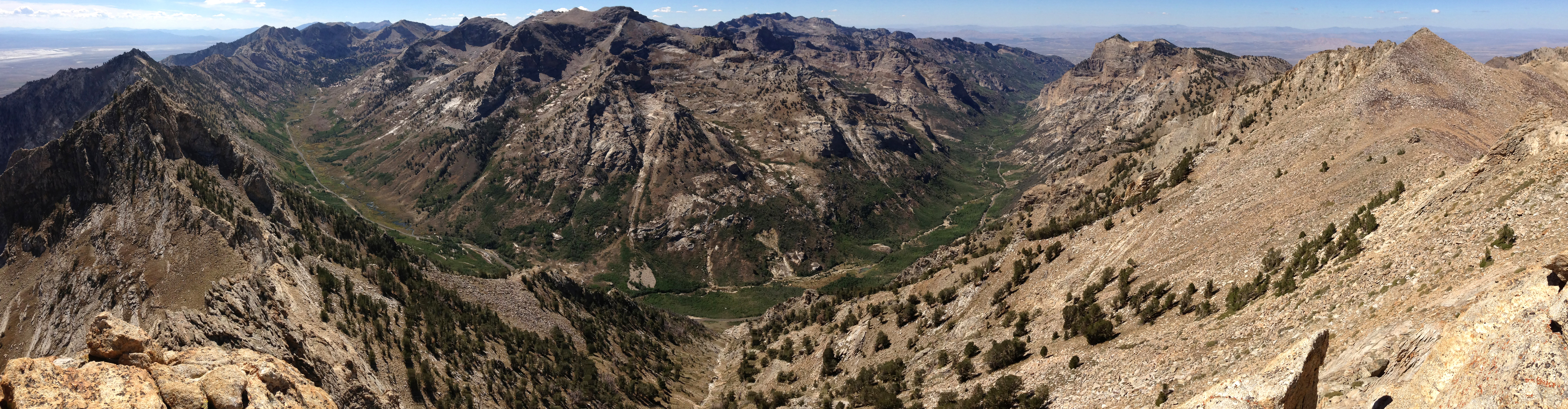 Panorama of Lamoille Canyon from Verdi Peak on September 9th 2013. Thomas Peak takes up much of the central portion of the image